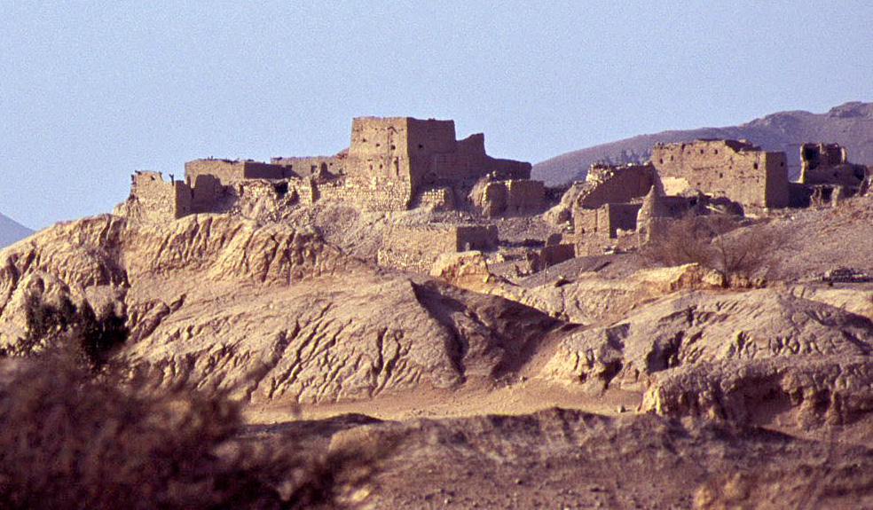 Remains of the ancient town of Shabwah in Yemen